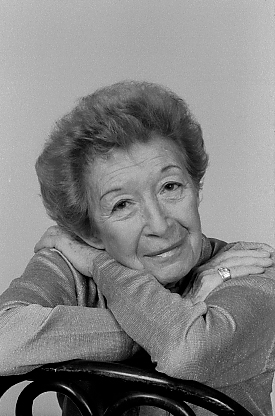 Stella K. Hershan, author